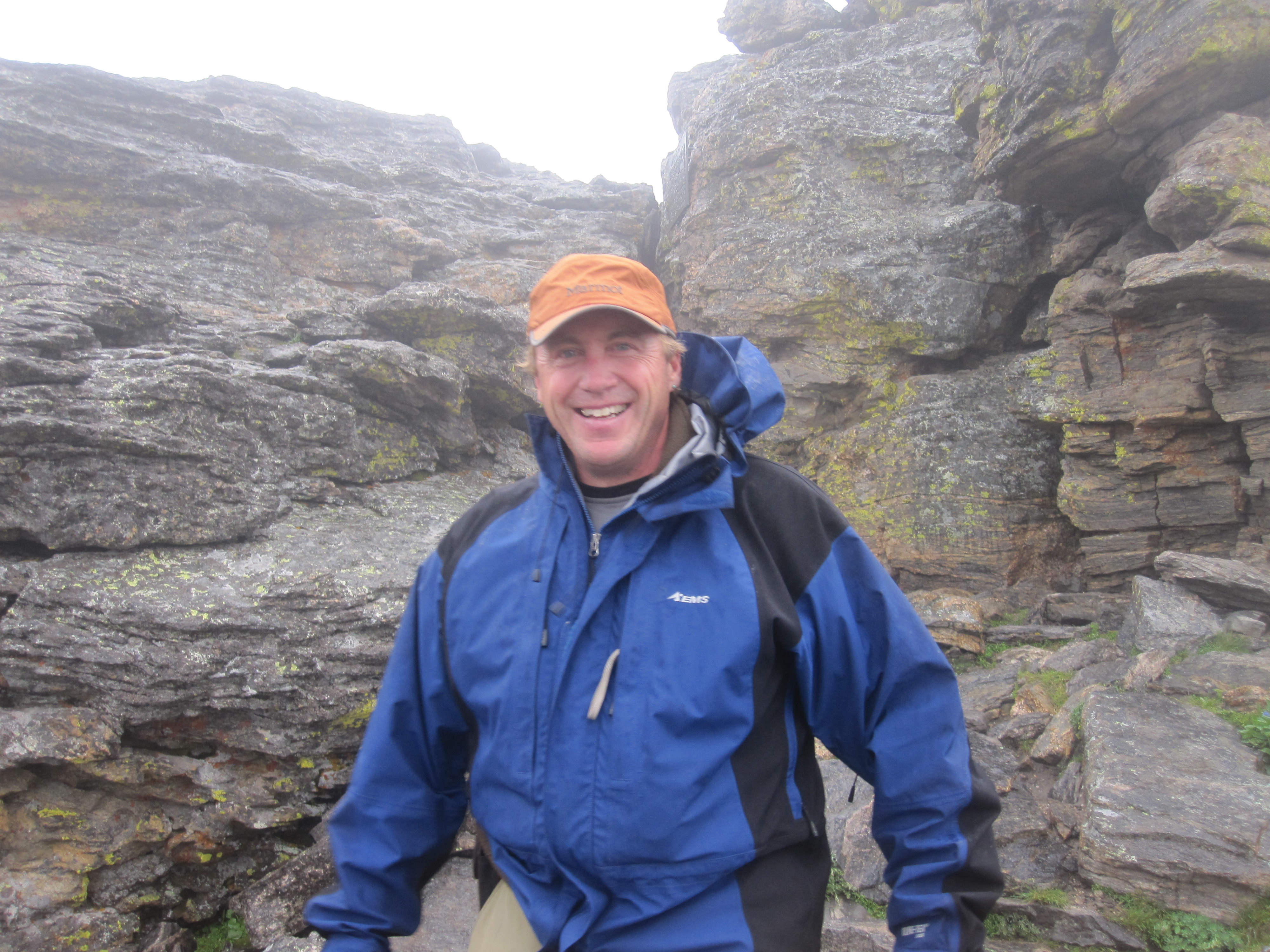 I took photo with Canon camera at RMNP, CO.